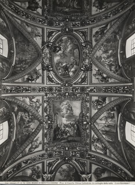 Frescoes by Luca Giordano for the Abbey of Montecassino, painted between 1677-1678, depicting The Miracles of Saint Benedict. They were destroyed (1944) during the Battle of Montecassino in World War II. Photo: Fratelli Alinari - Copia a la gelatina de plata / gelatin silver print. Fondazione Zeri. Photograph before 1927